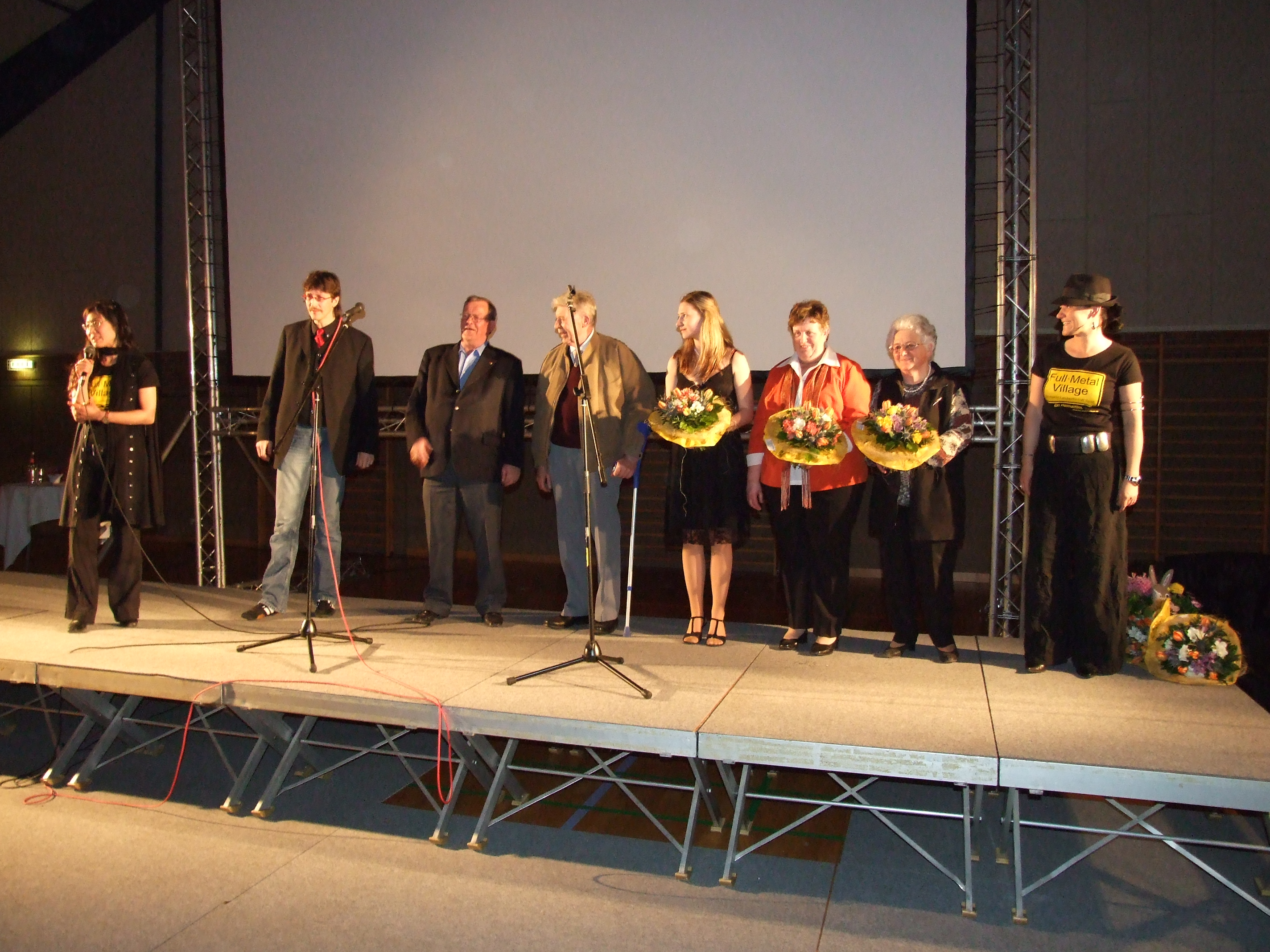 Next to Sung-Hyung Cho, director of the documentary "Full Metal Village" and local moderator Bernd Stölting (left), we can see the "heroes" of the movie at the pre-premiere in Wacken: Uwe Trede, Klaus Plähn, Ann-Kathrin Schaak, Eva Waldow, Irma Schaack (from left to right).